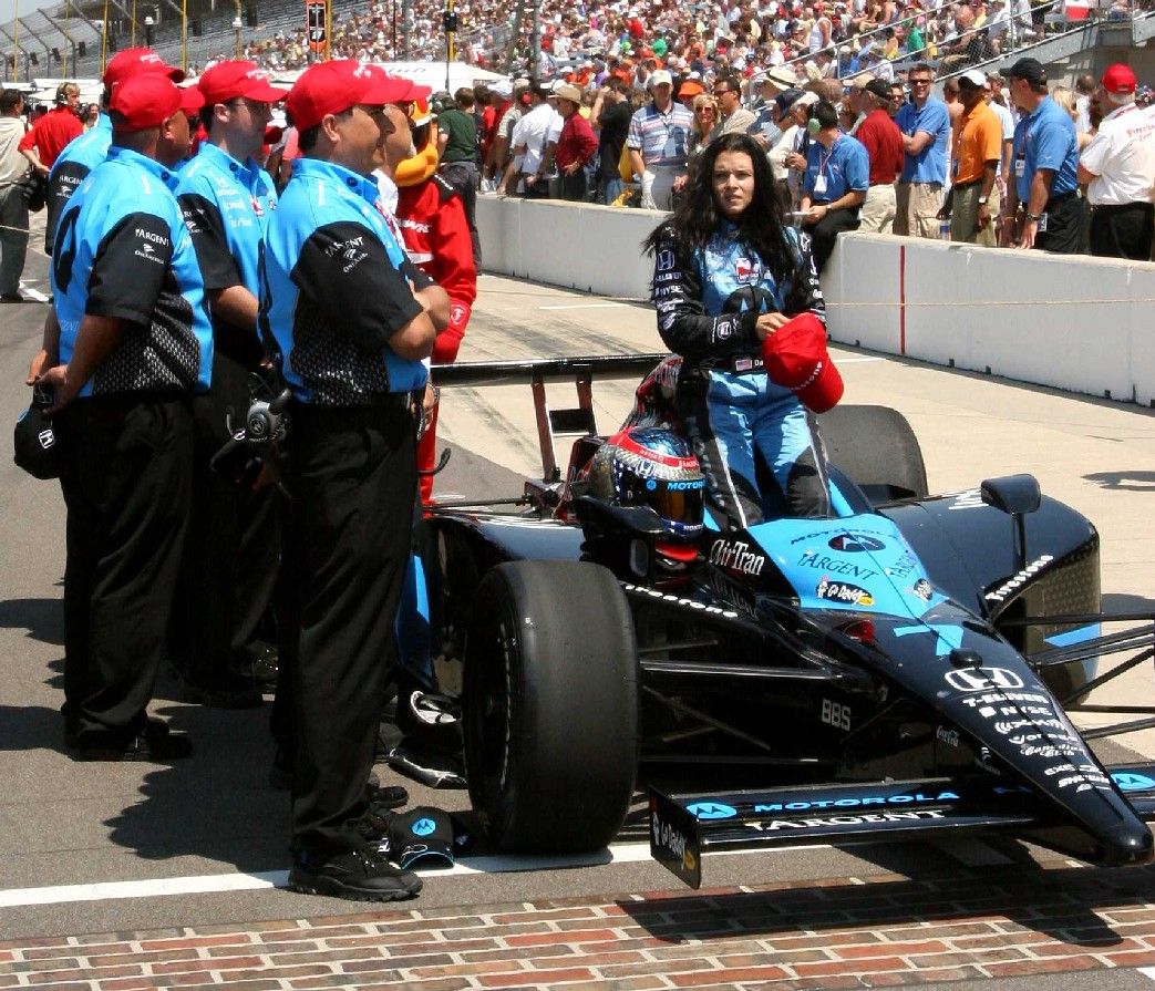 Danica after qualifying for the 2007 Indianapolis 500. Photo by Tim Wohlford